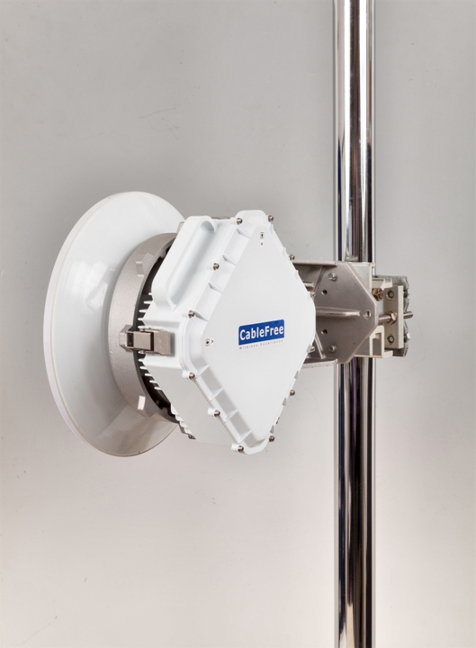 CableFree V-Band 60GHz MMW link with High Gain directional antenna used to create Point to Point wireless backhaul links